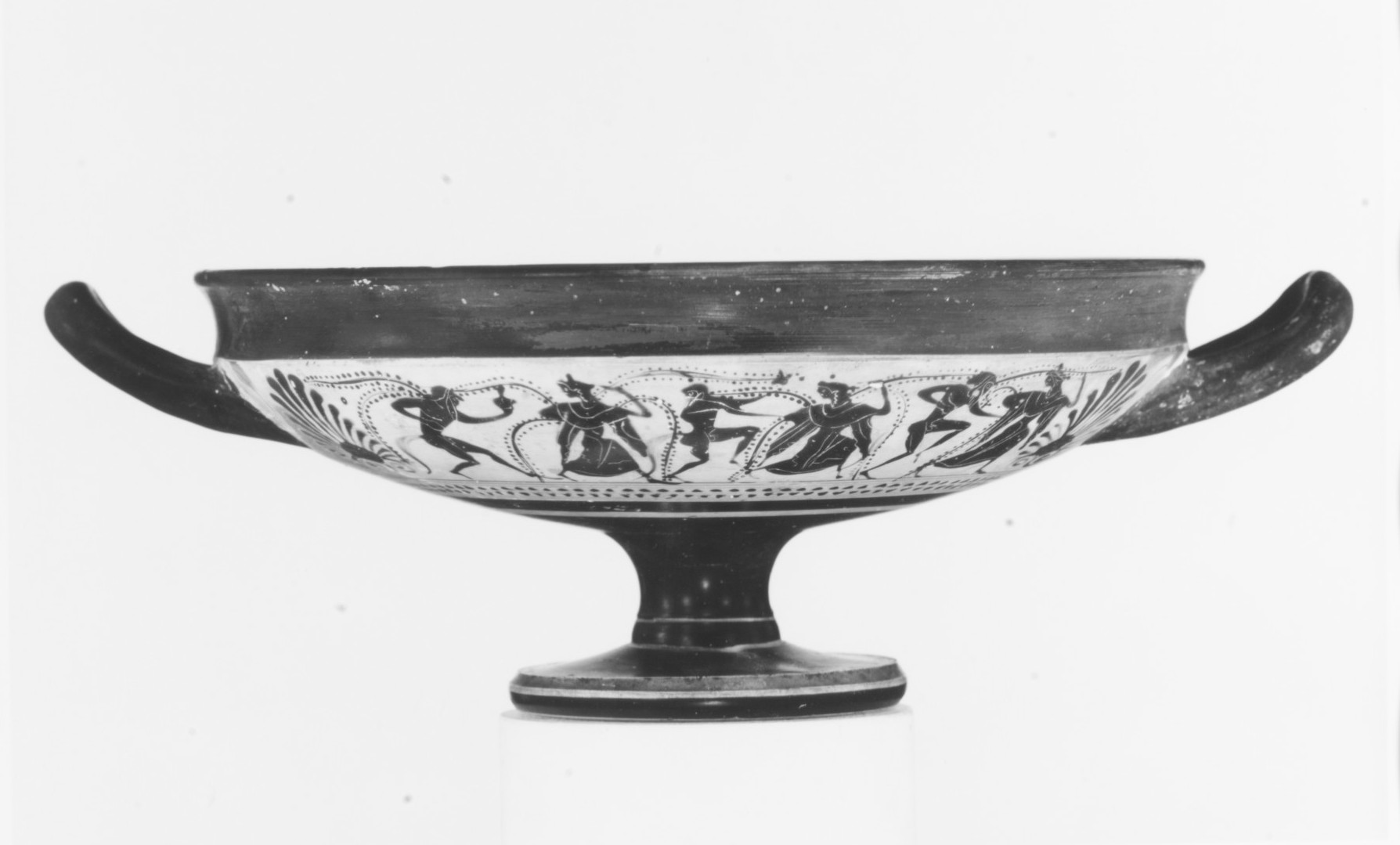 Greek, Attic; Kylix, Droop cup; Vases; Interior, deer and palm tree; exterior, Thiasos of satyrs and maenads